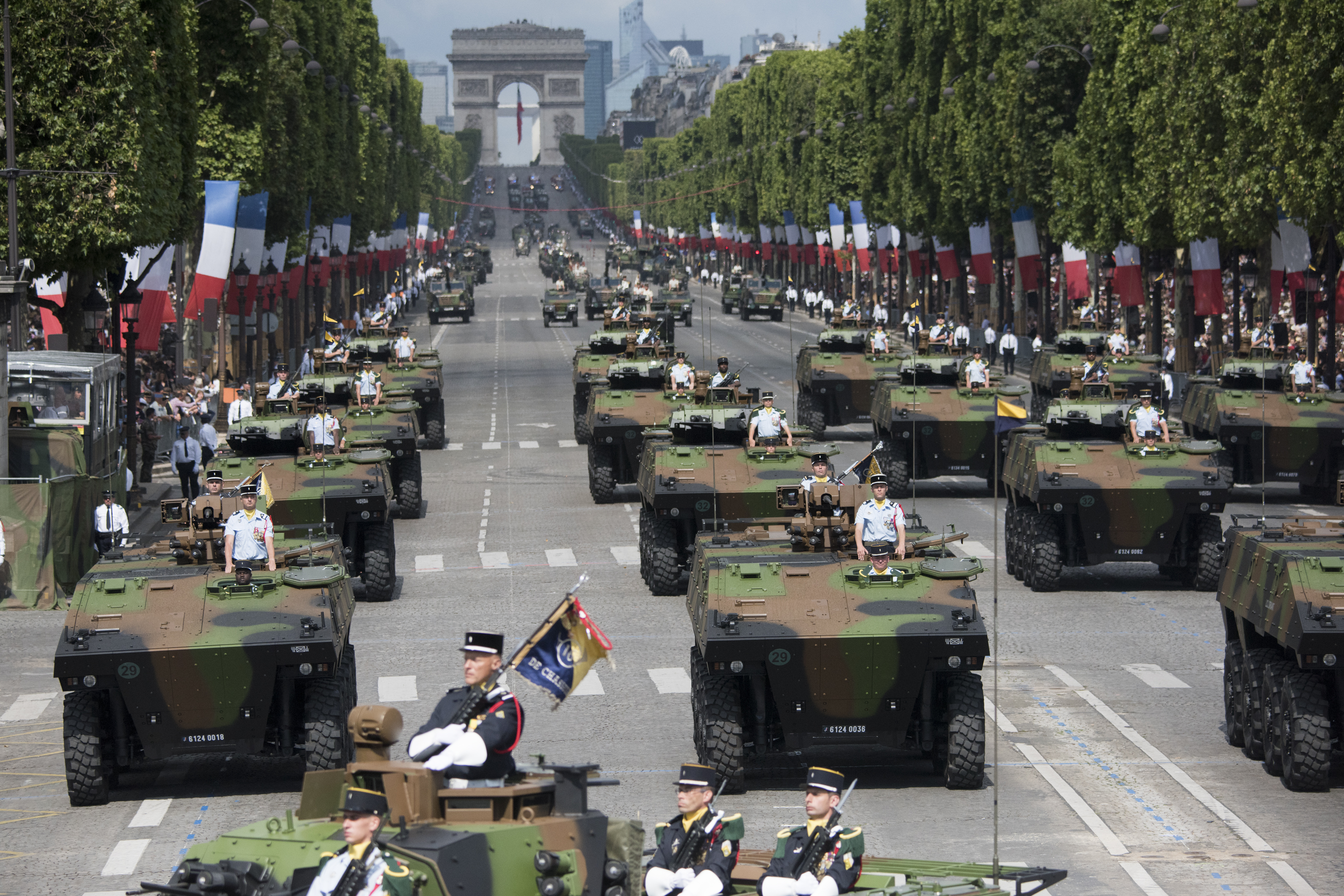 French soldiers, sailors, airmen and Marines march in the annual Bastille Day military parade down the Champs-Elysees in Paris, July 14, 2017. In the foreground, VBCI of the 16th battalion of chasseurs. DoD photo by Navy Petty Officer 2nd Class Dominique Pineiro